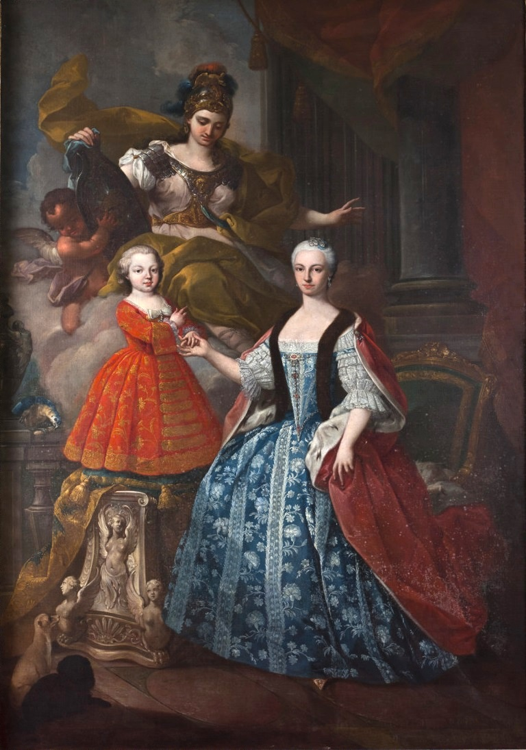 Athena is in the background behind the prince